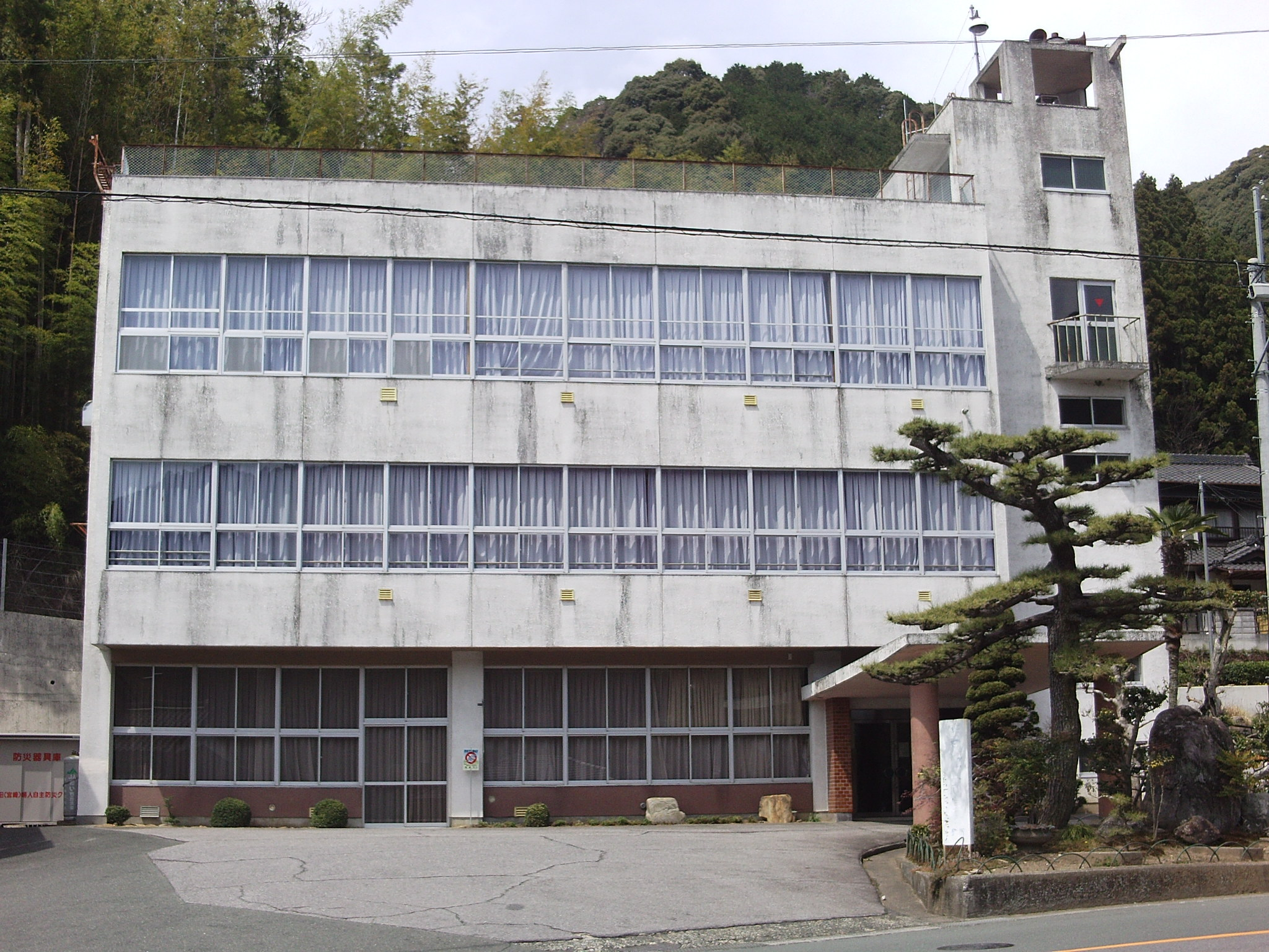 Miyazaki village office in Okazaki, Aichi, Japan. The present Okazaki City Miyazaki branch office.